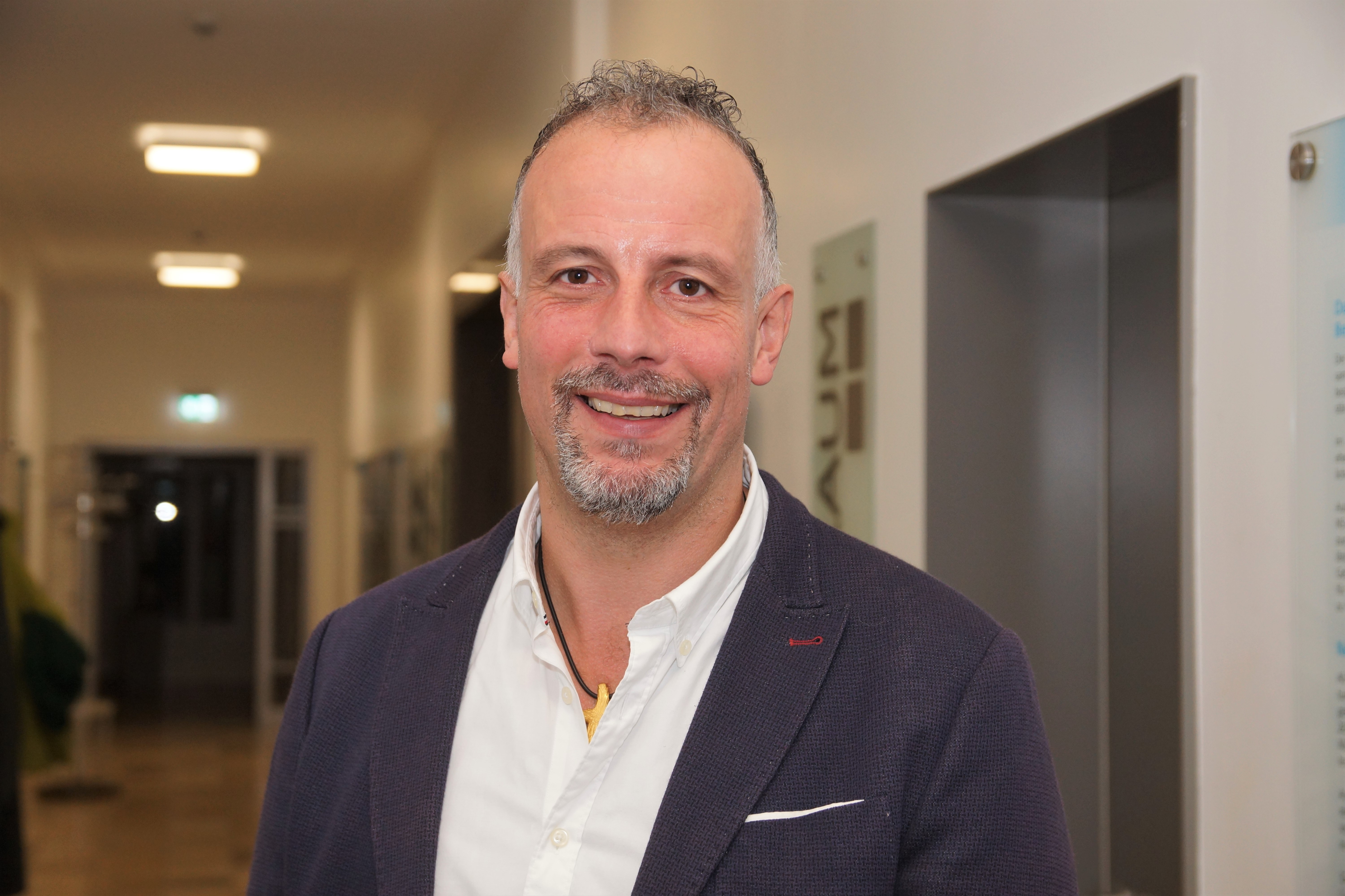 Member of Parliament in Hesse